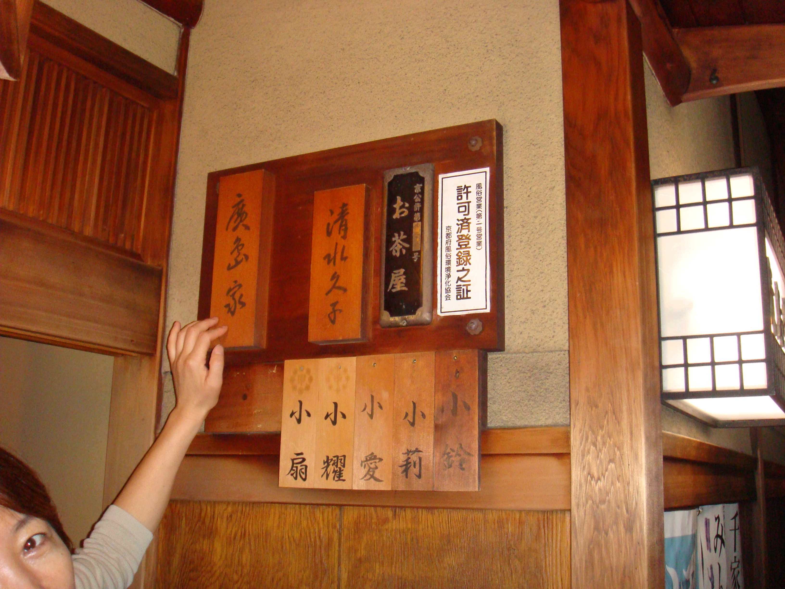 On front of gate of an ochaya, their names are inscribed on the wood block. Hiroshimaya (廣島家) — ochaya's name, Kiyomizu Hisako (清水久子) — the owner of the ochaya (お茶屋), working geisha and maiko's names: Kosen (小扇), Koyou (小燿), Koai (小愛), Komari (小莉), Kosuzu(小鈴).